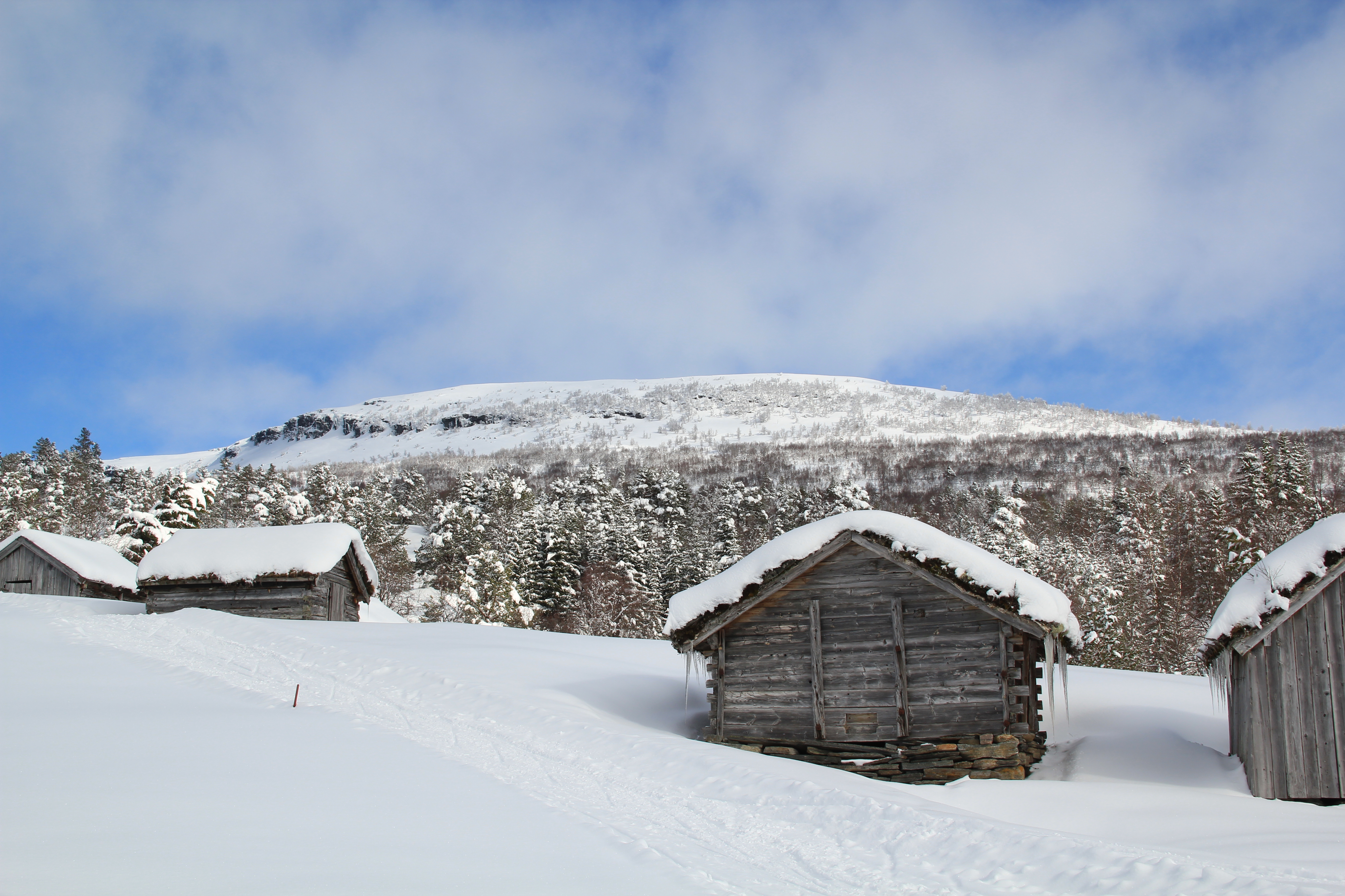 Eggene, mountain in Gloppen